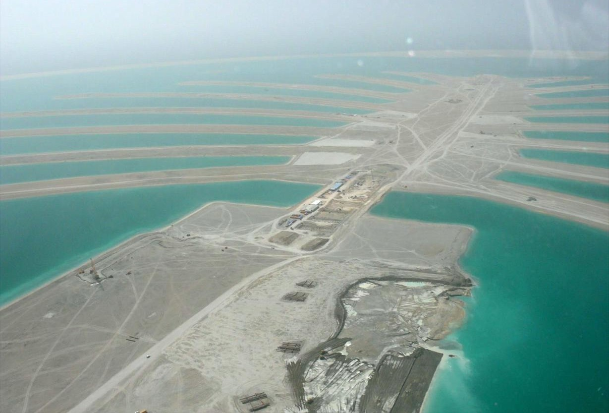 This is an aerial view of the Palm Jebel Ali, located in Dubai, United Arab Emirates, on 8 May 2008. This photo was taken from a helicopter ride courtesy of Nakheel.